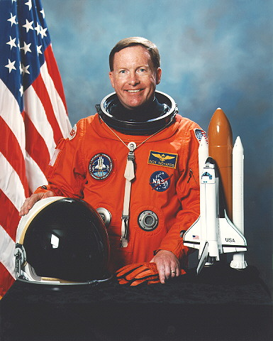 portrait astronaut Richard Richards